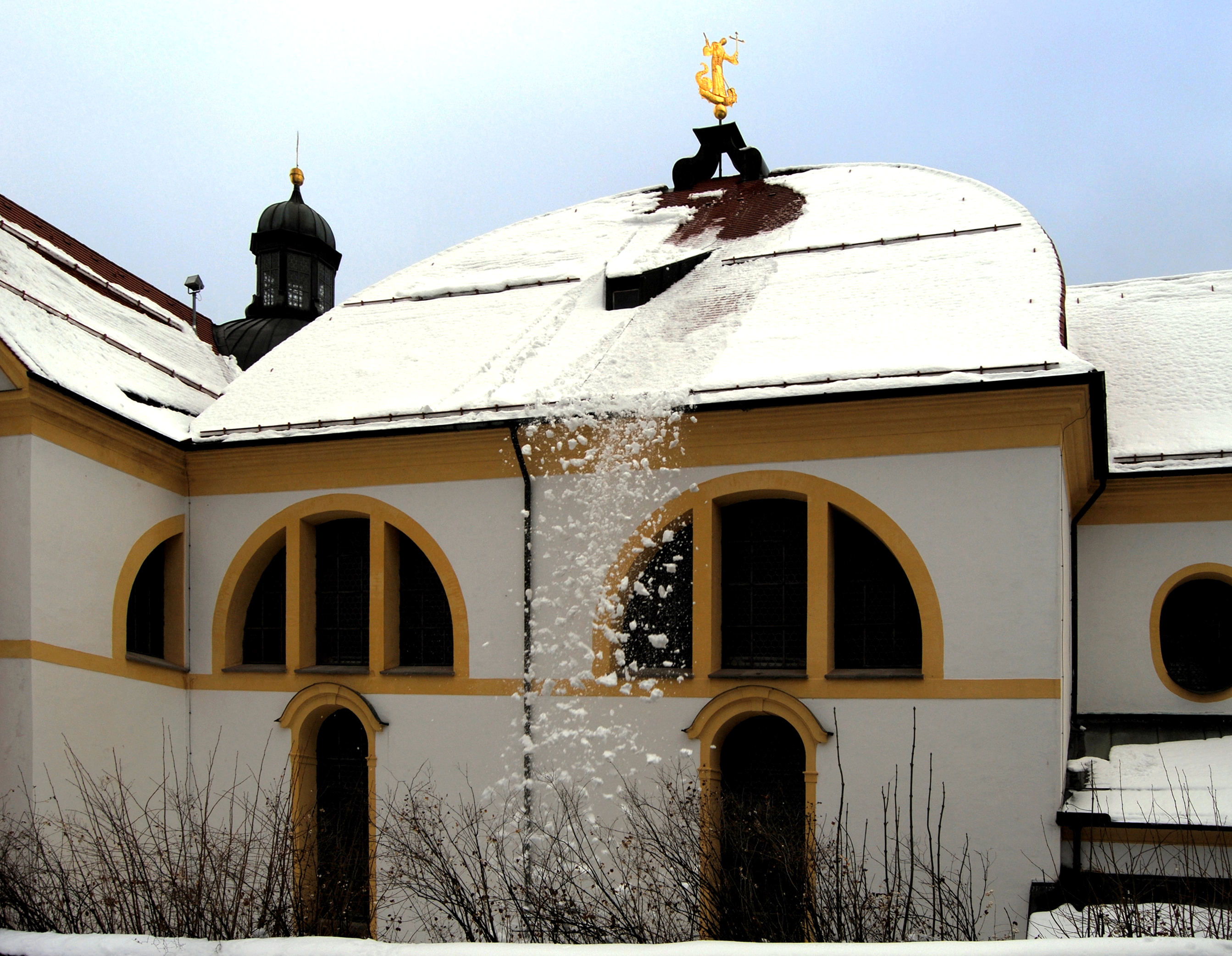 Roof avalanche at a part of the abbey church St. Mang Basilica of the monastery St. Mang in Füssen, Bavaria, Germany